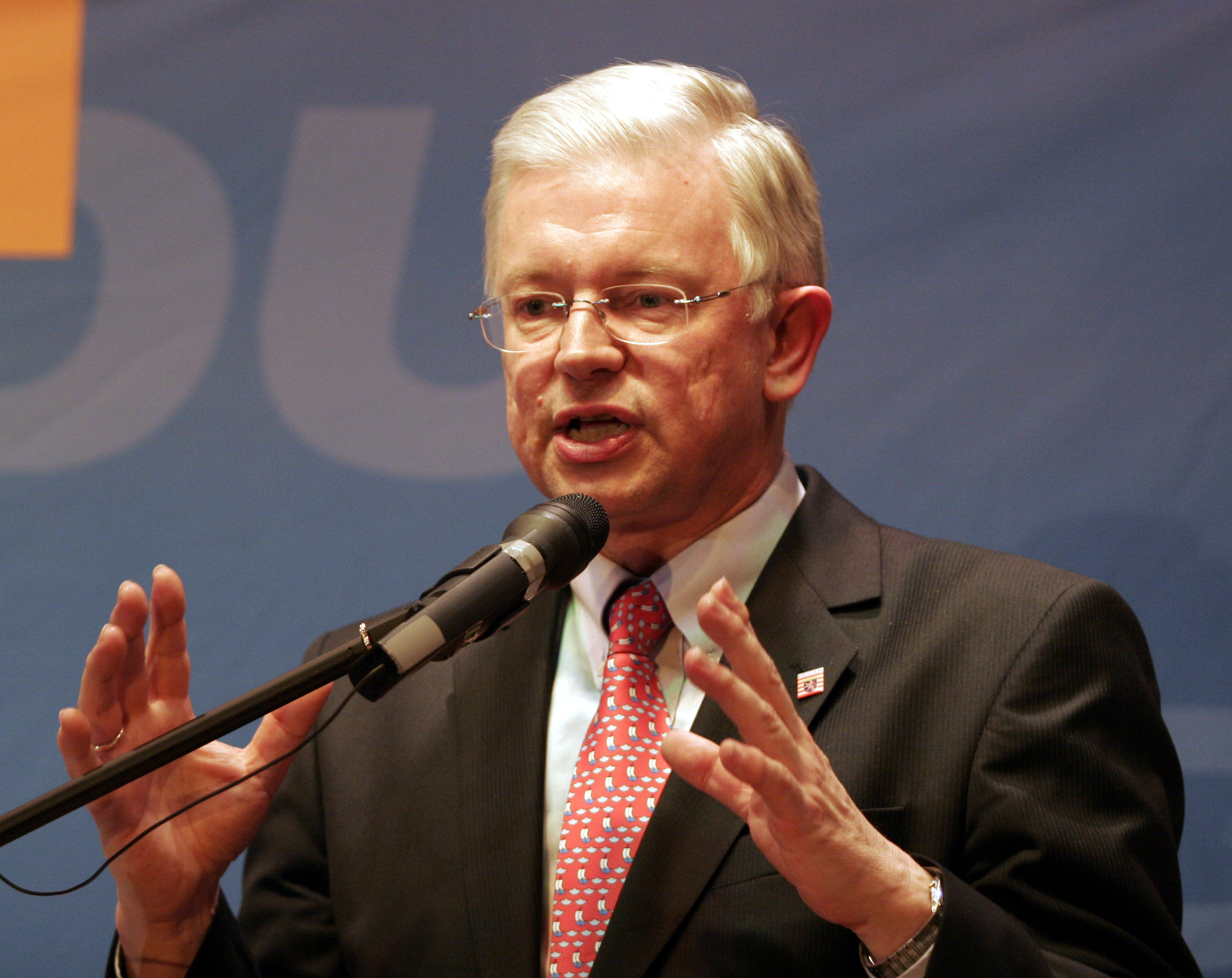 Roland Koch, State Premier of Hesse (Germany), during an election campaign event in Bensheim (Hesse, Germany)